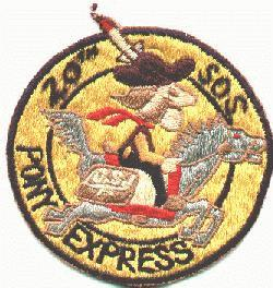 Emblem of the 20th SOS Pony Express, for Operation Pony Express, Vietnam War.